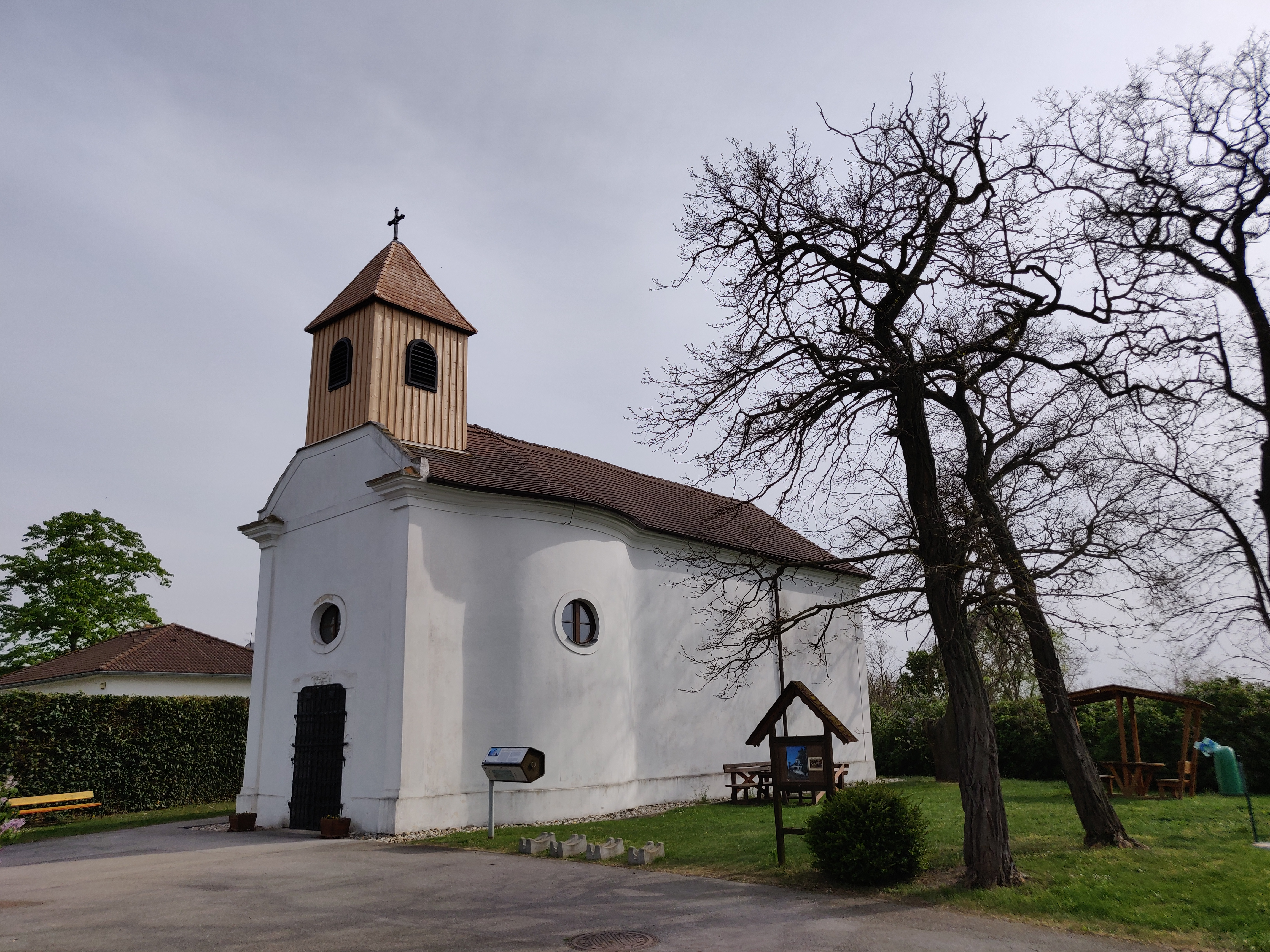 Zeiselhof Chapel at Deutsch-Jahrndorf, Austria